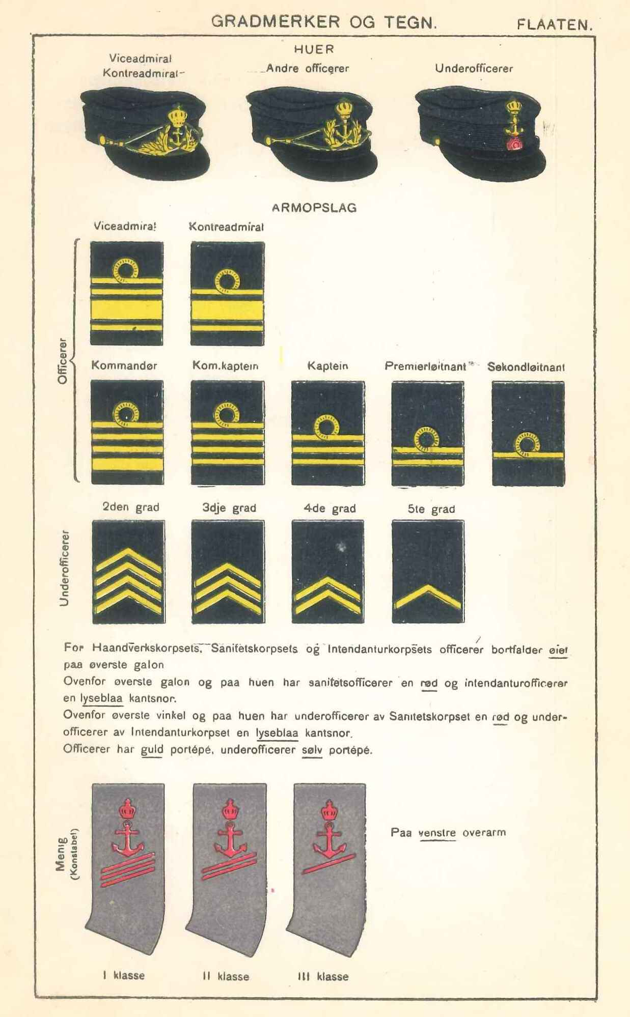 Rank insignia of the Royal Norwegian Navy in 1928